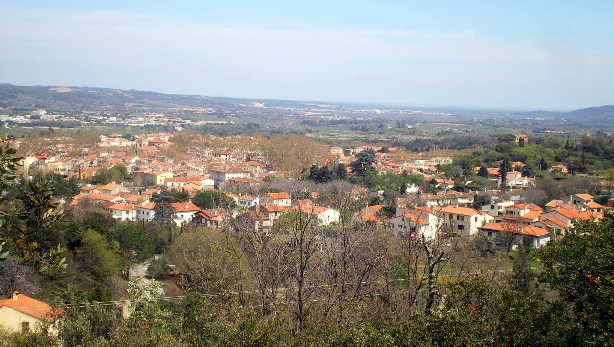 Global view of the city of Ceret